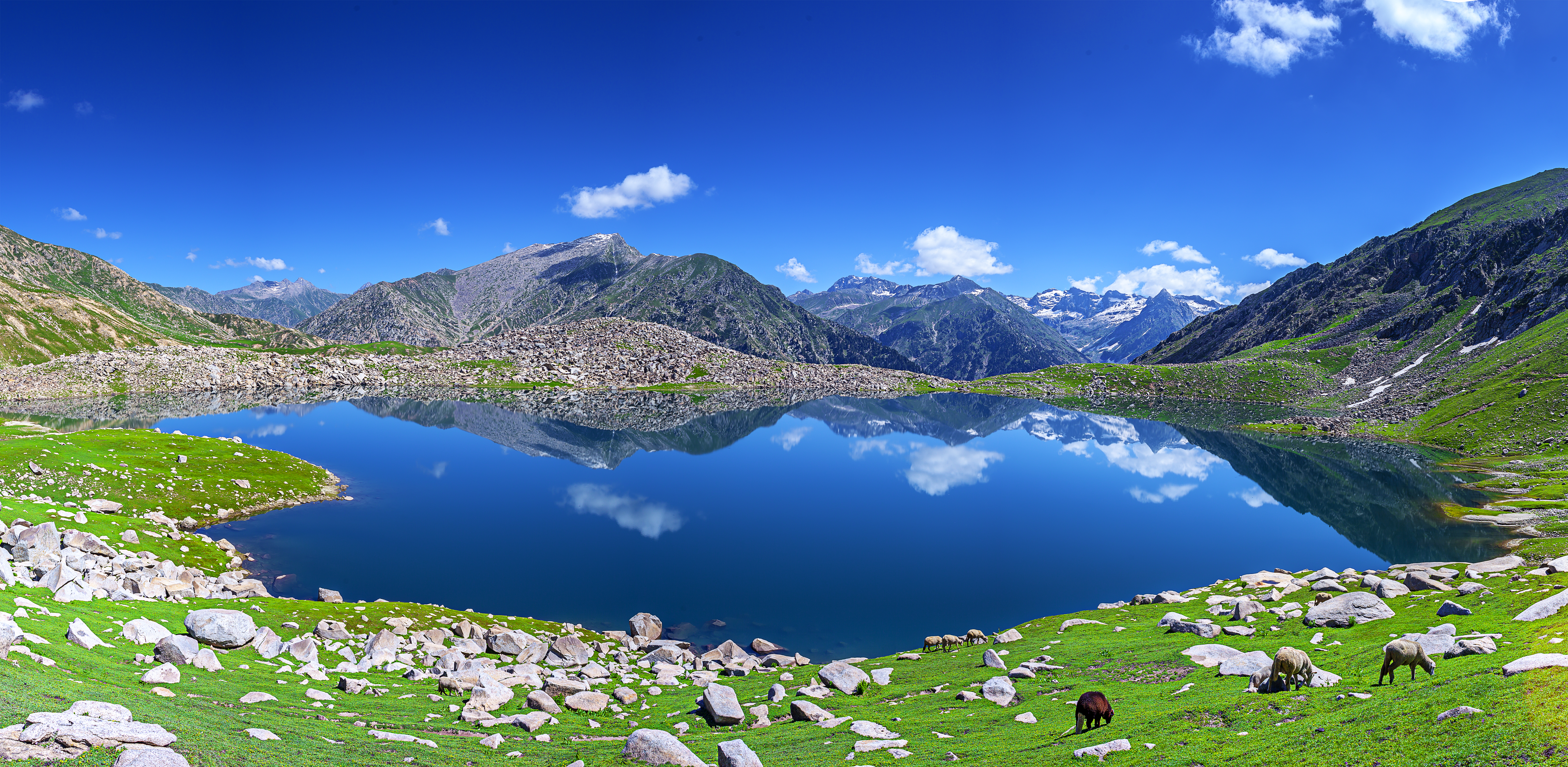 DARAAL Lake, Swat Valley pakistan